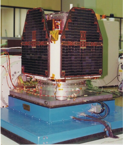 The SAC-B satellite in the clean room of INVAP.